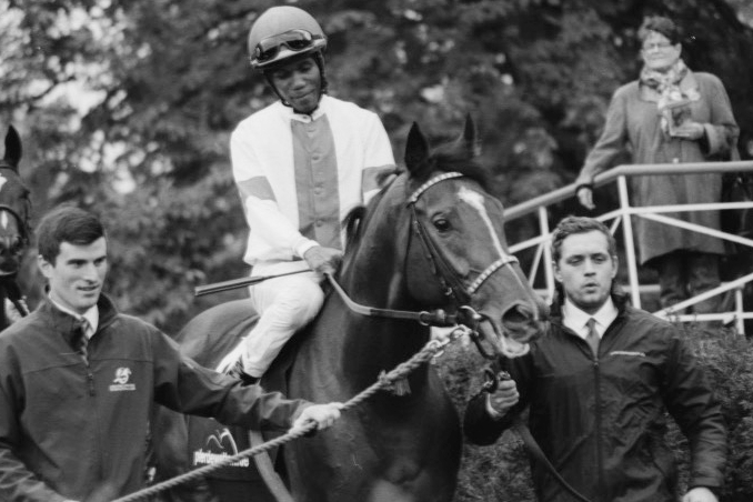 Laccario with Eduardo Pedroza.